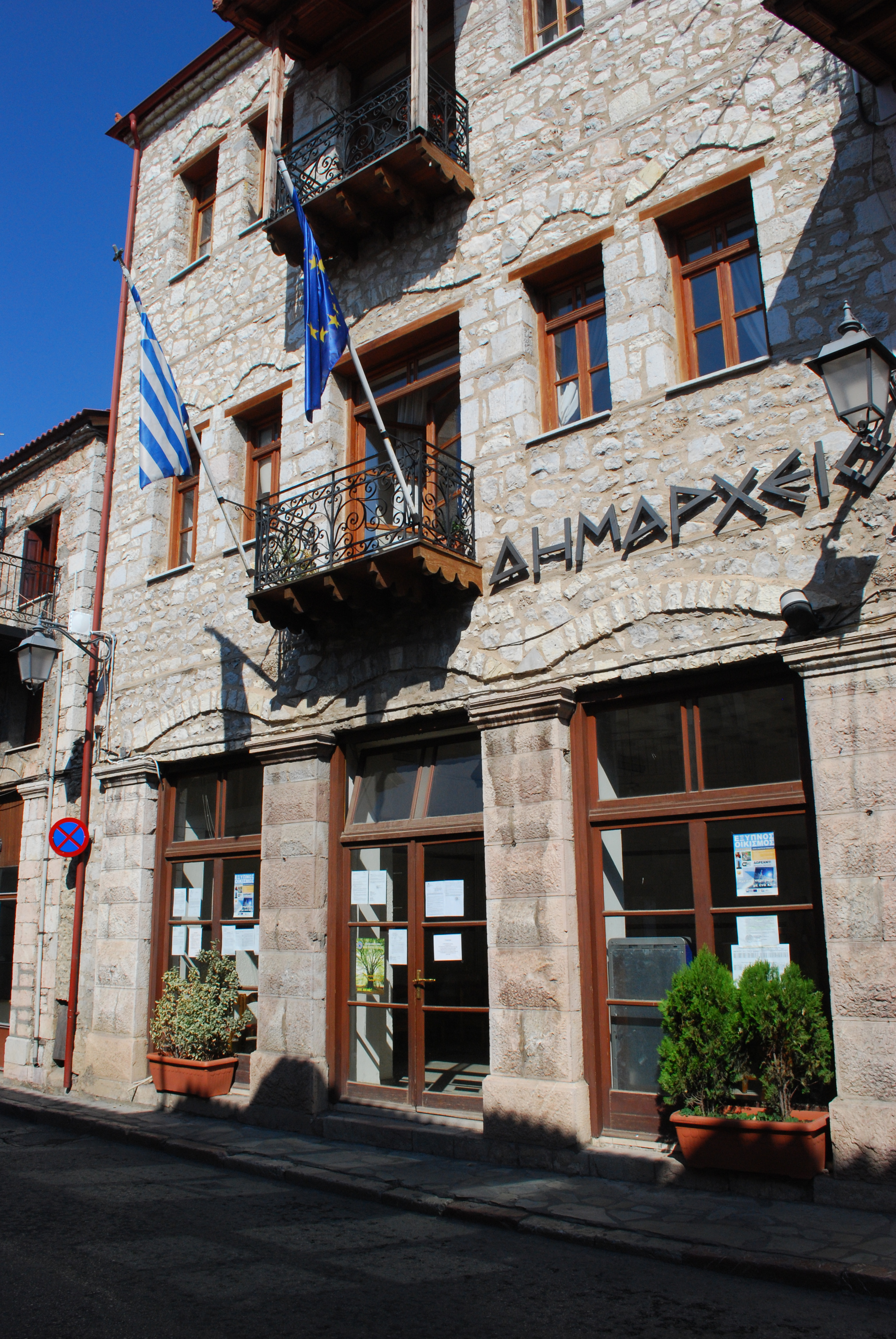 View of Arachova (Viotia).